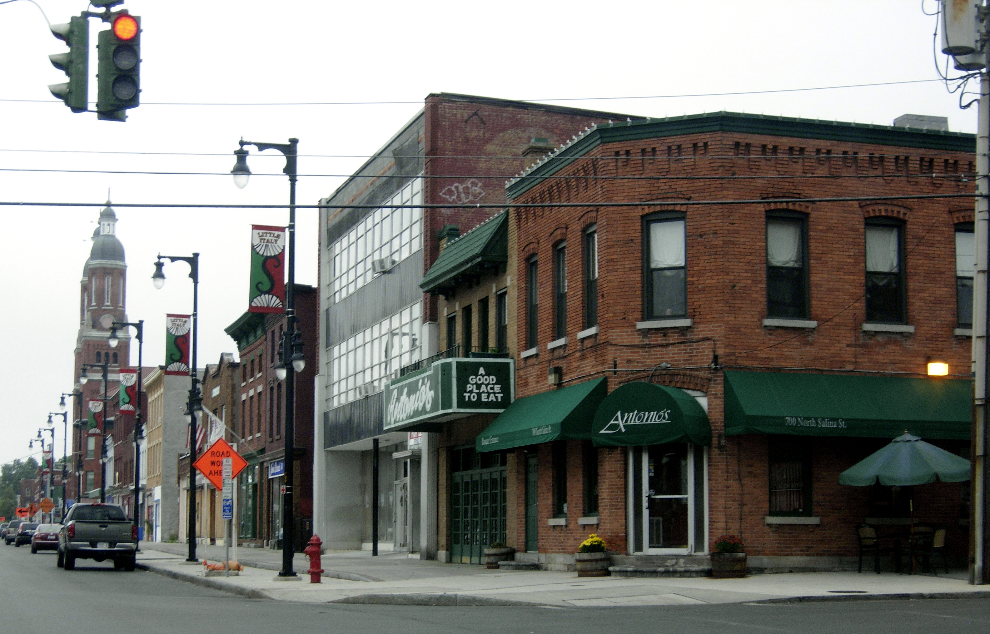 North Salina Historic District, 700 N Salina St, Syracuse, NY